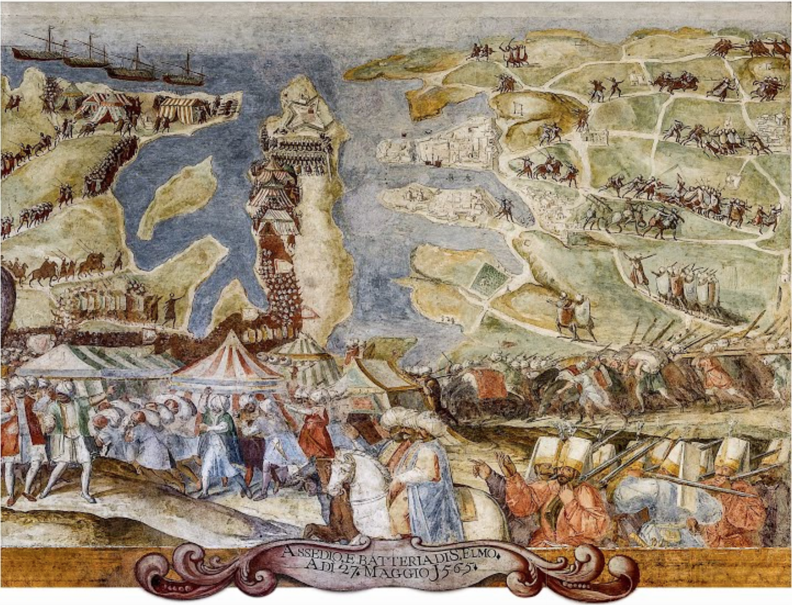 Siege of St. Elmo. Mustafa, Dragut and Piale.